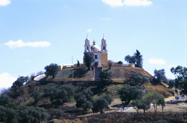 Iglesia de Nuestra Señora de los Remedios (Church of Our Lady of the Remedies), also known as the Santuario de la Virgen de los Remedios (Sanctuary of the Virgin of the Remedies), Cholula, Puebla, Mexico